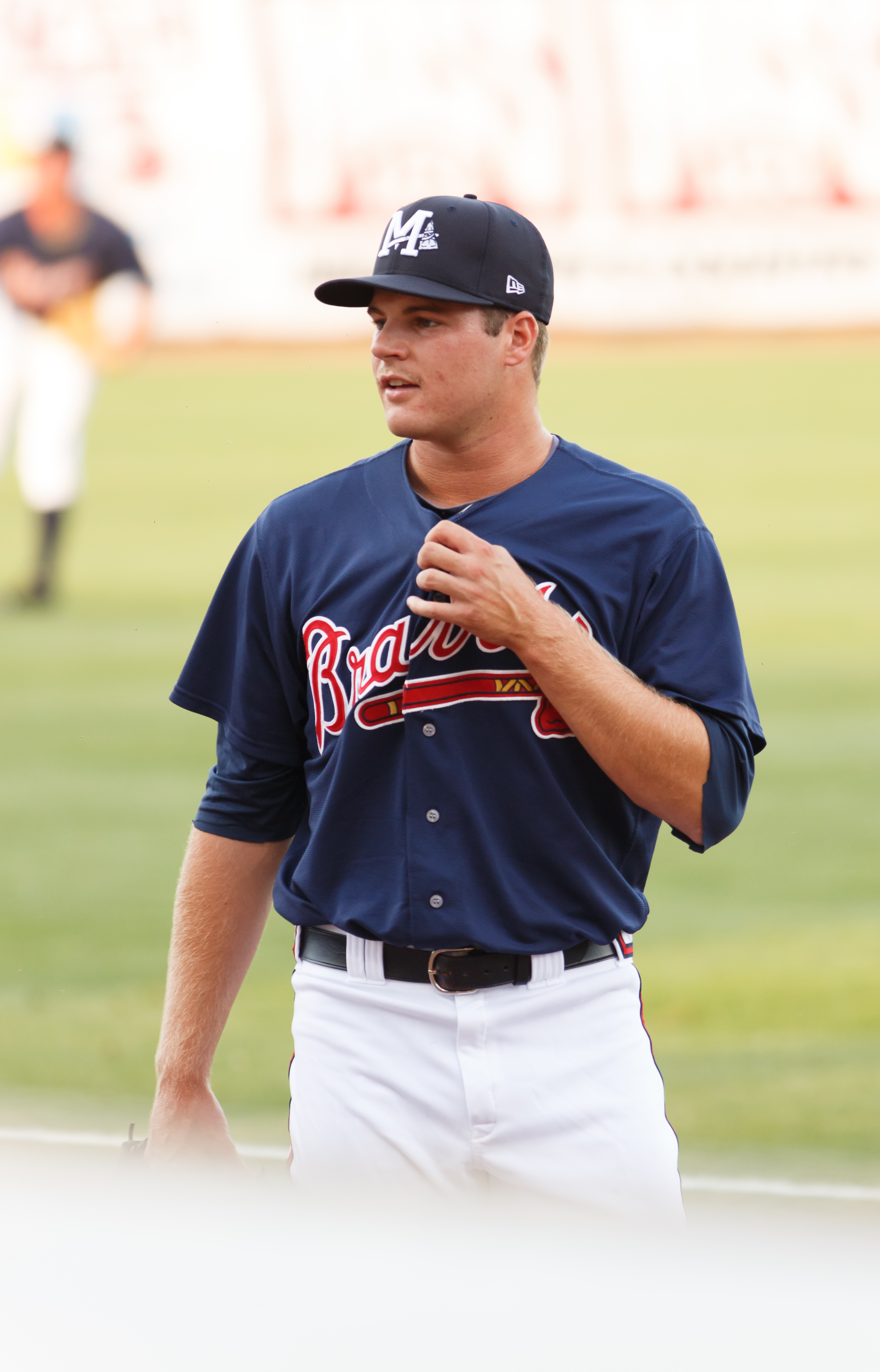 Professional baseball pitcher Jason Hursh in 2015 playing with the Mississippi Braves at Trustmark Park in Pearl, Mississippi